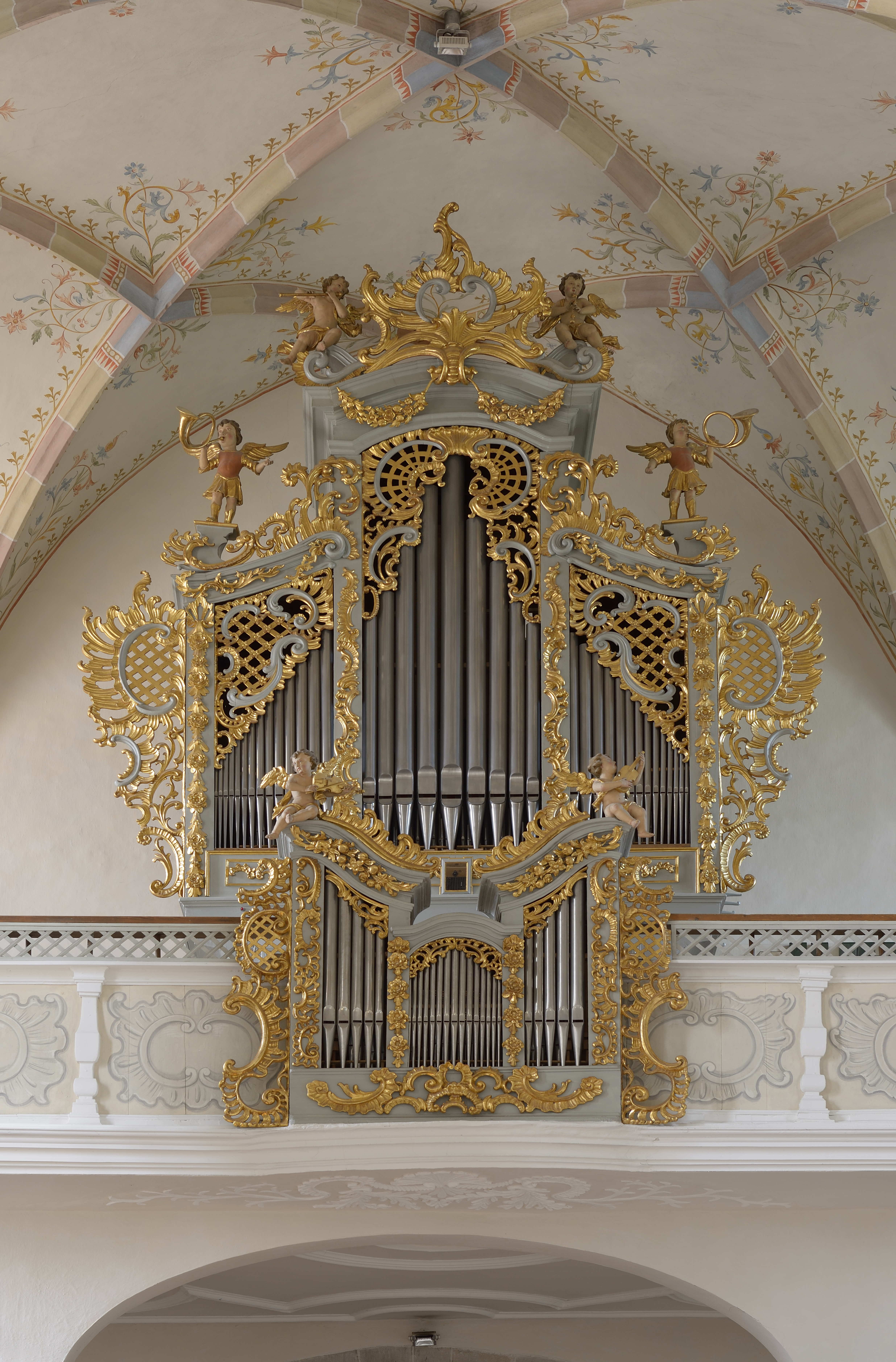 Organ by Ignaz Franz Wörle around AD 1760 in the parish church of Völs am Schlern